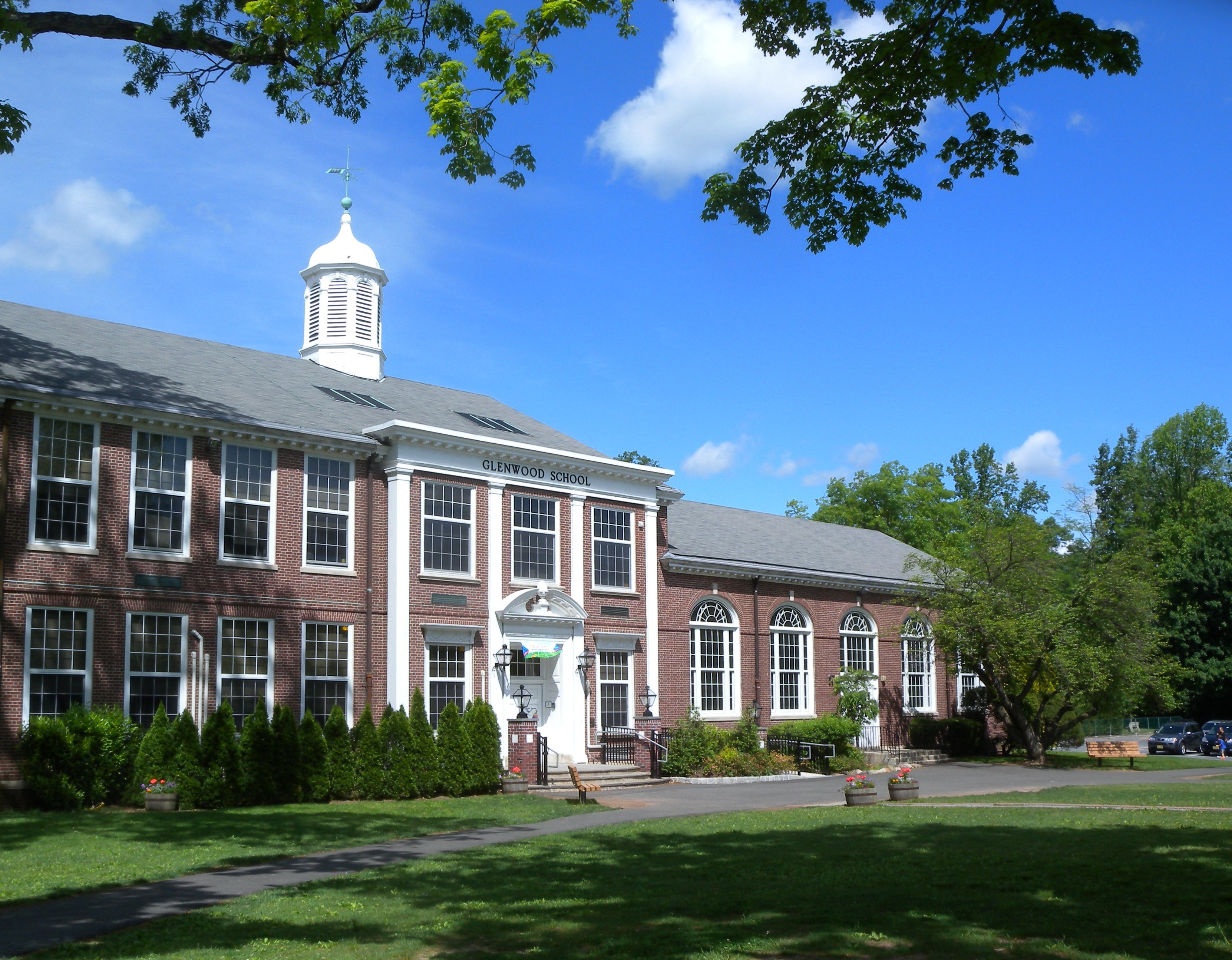 Looking northwest at Glenwood School, western Millburn, on a sunny morning.